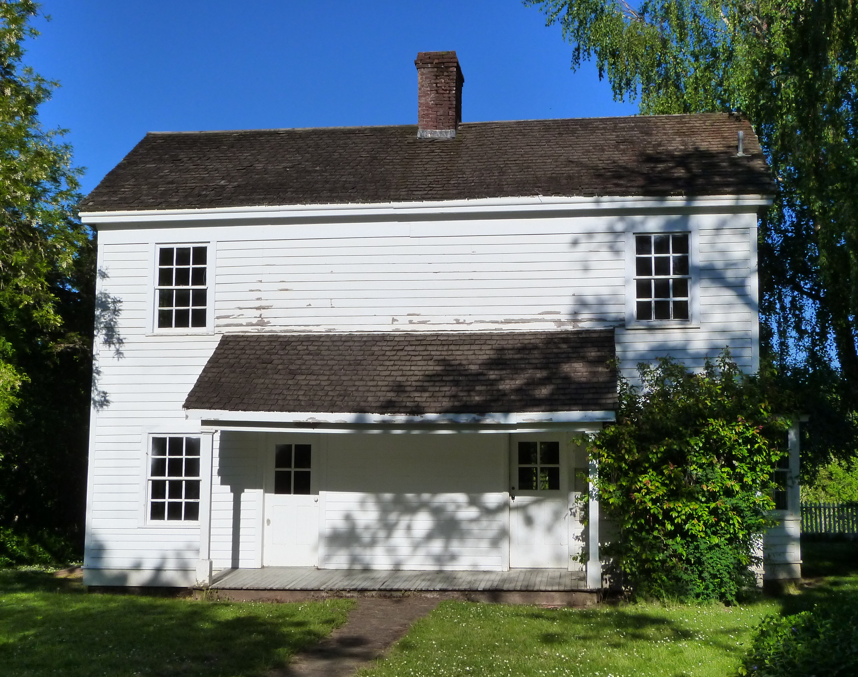 The historic John Fiechter House (built 1855–1857), located in the William L. Finley National Wildlife Refuge near Corvallis, Oregon, United States, is listed on the U.S. National Register of Historic Places.